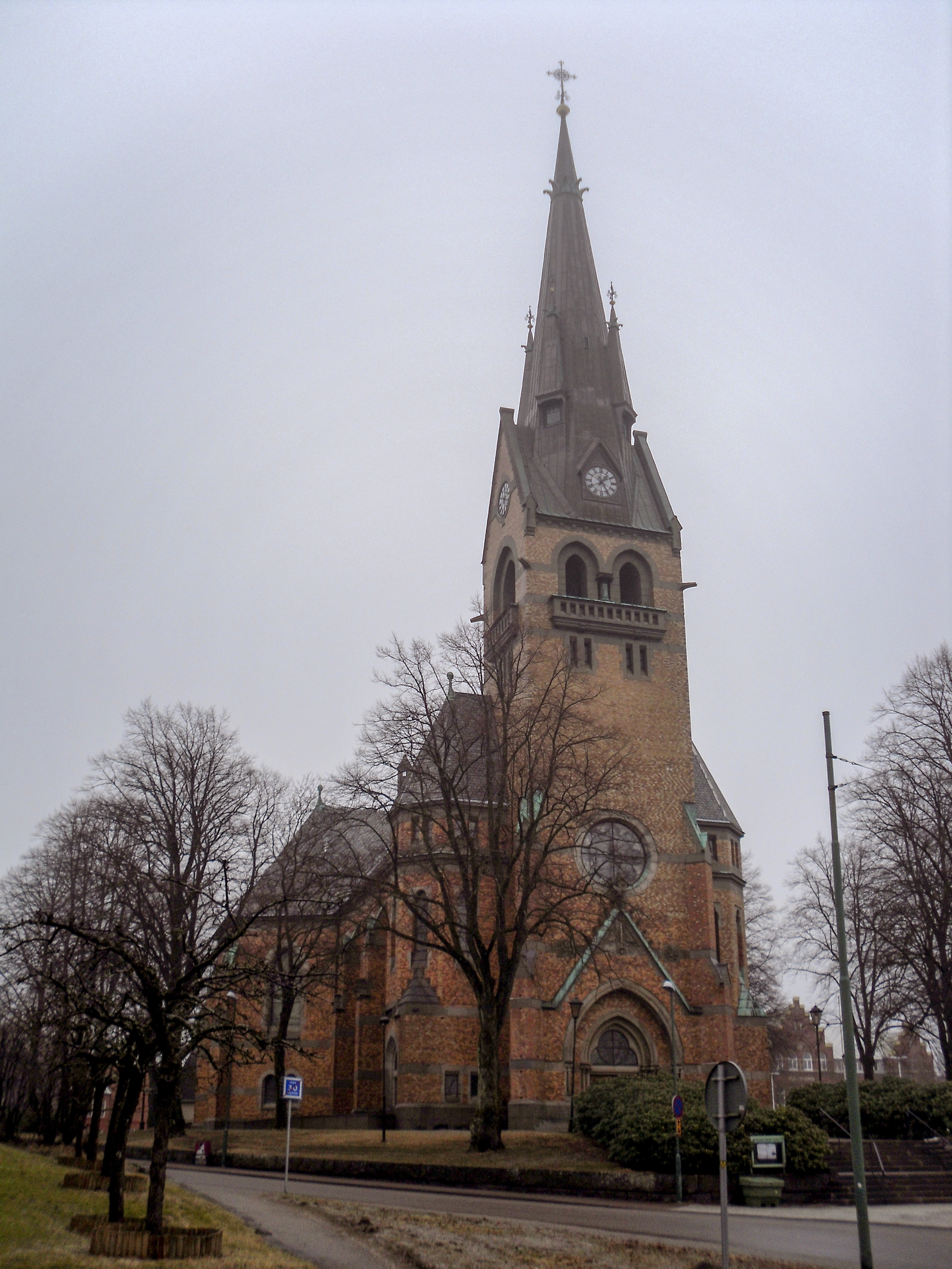 Gustav Adolf Church, Borås, Sweden